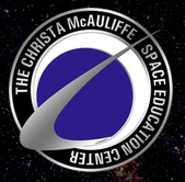 The logo of the Christa McAuliffe Space Education Center located in Pleasant Grove, Ut.